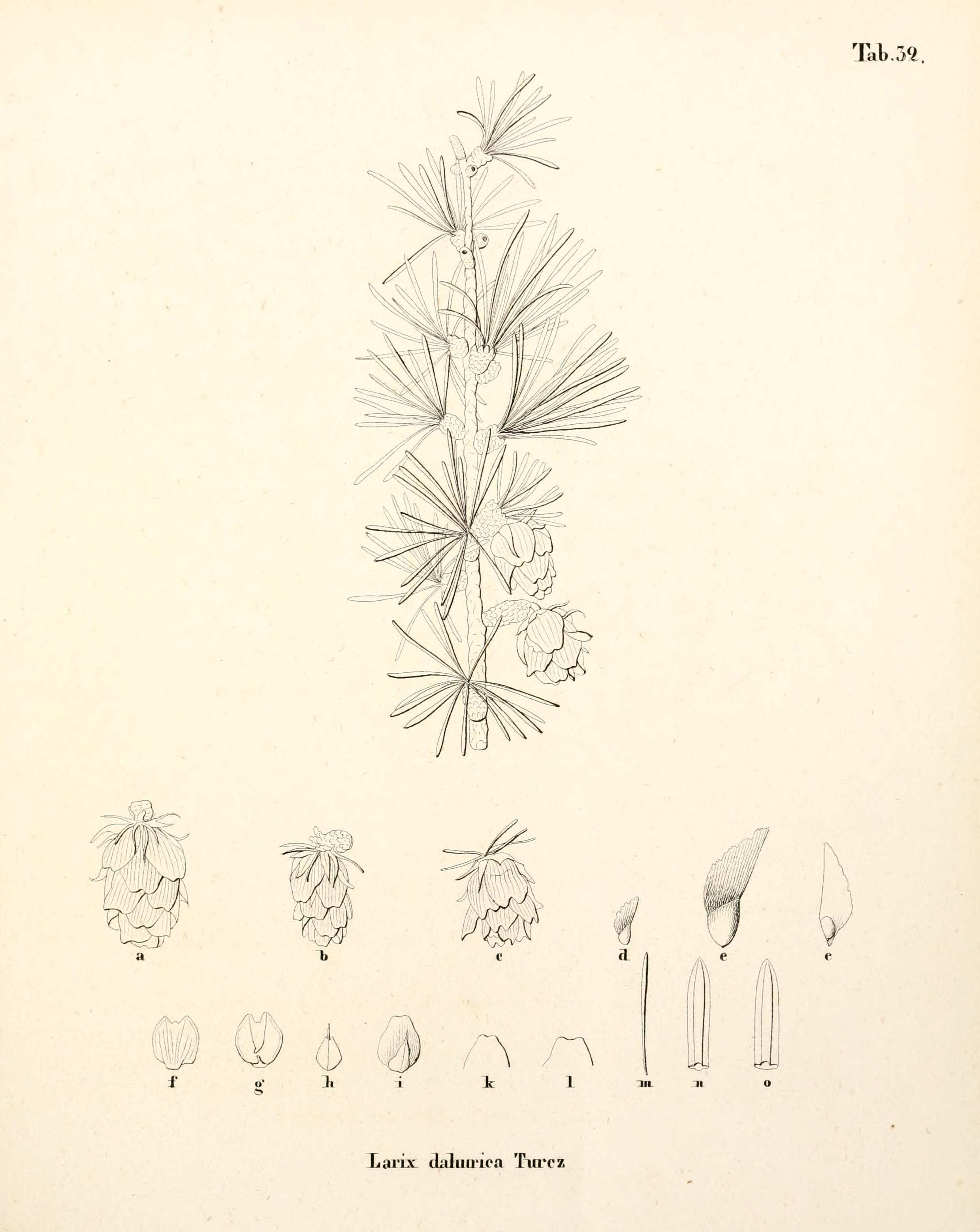 Botanical illustration from: Trautvetter, E.R., Plantarum imagines et descriptiones florum Rossicam illustrantes (1844-1846)